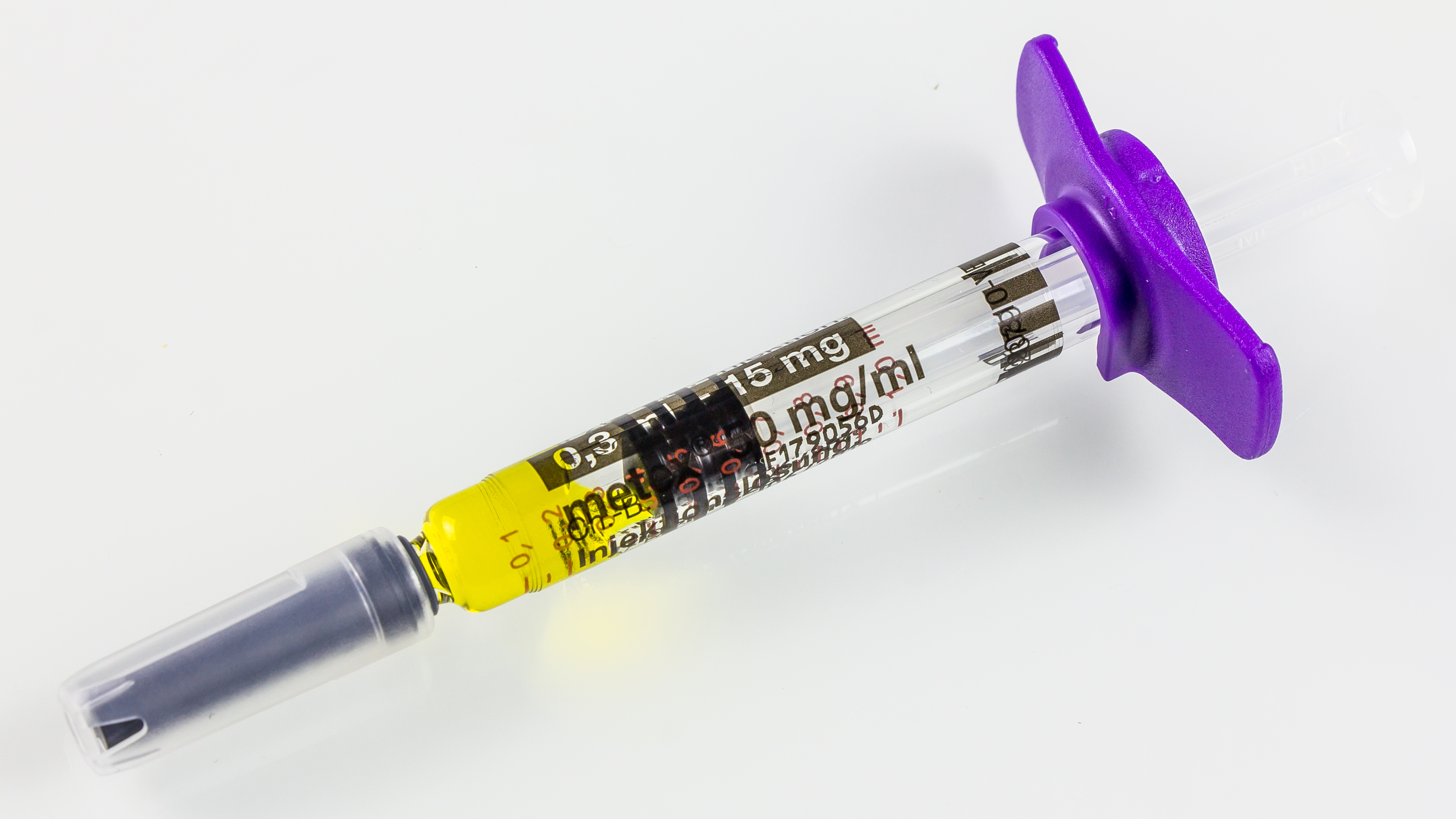 Syringe with Metex/Methotrexatei